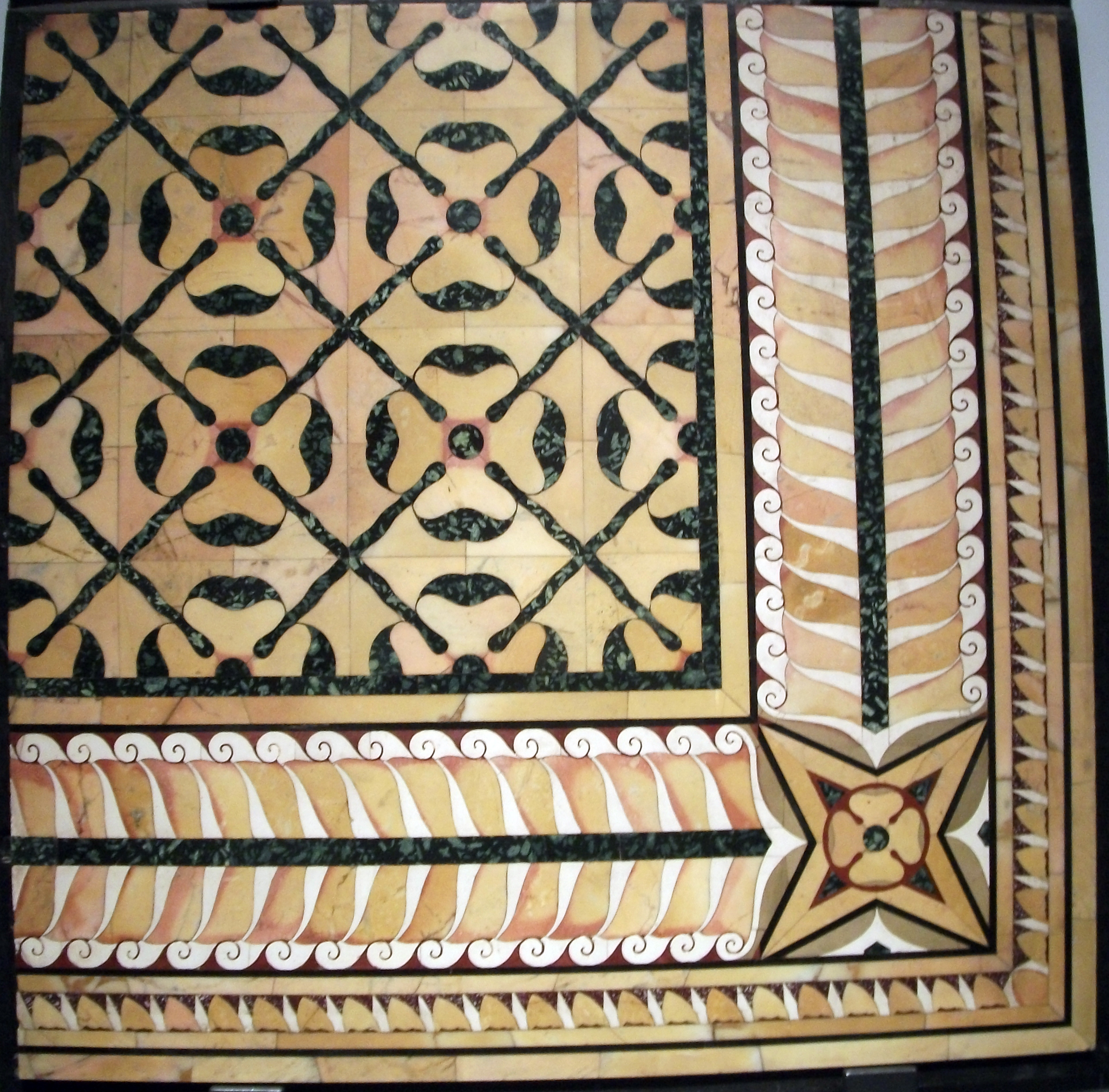 Antiquarium del Palatino (Rome)